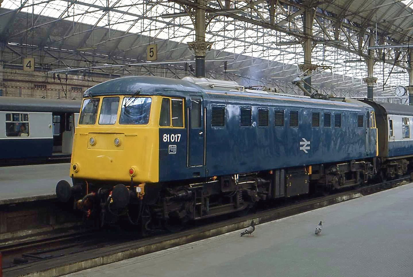 Ex works 81017 stands at the blocks after working ECS from Longsight